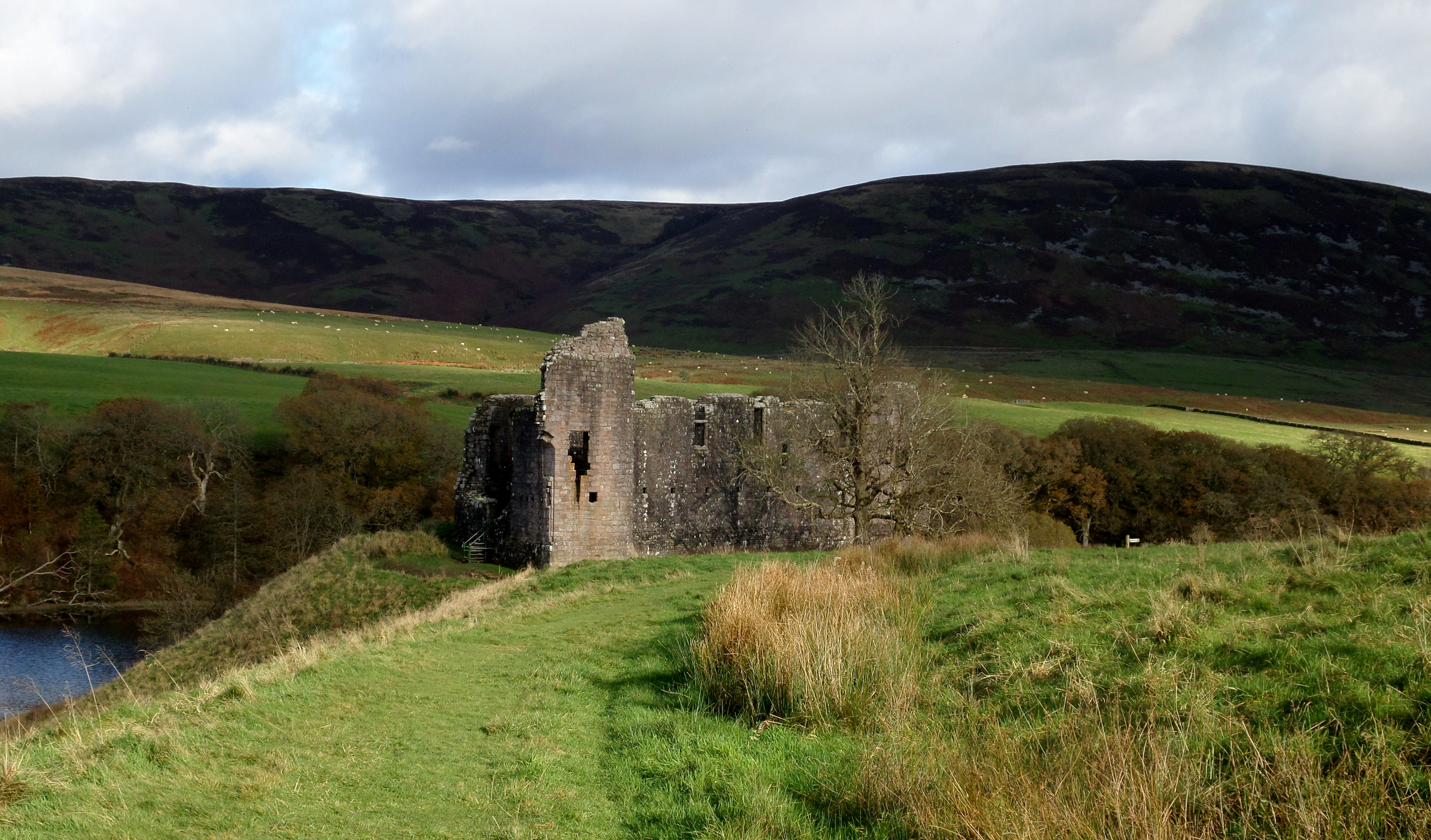 Morton Castle, Thornhill, Dumfries and Galloway - approach road.